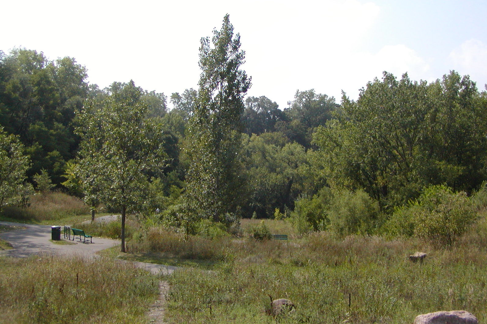 Swede Hollow, Saint Paul, Minnesota, 2008